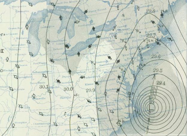 A September 21, 1938 weather map featuring the 1938 Hurricane